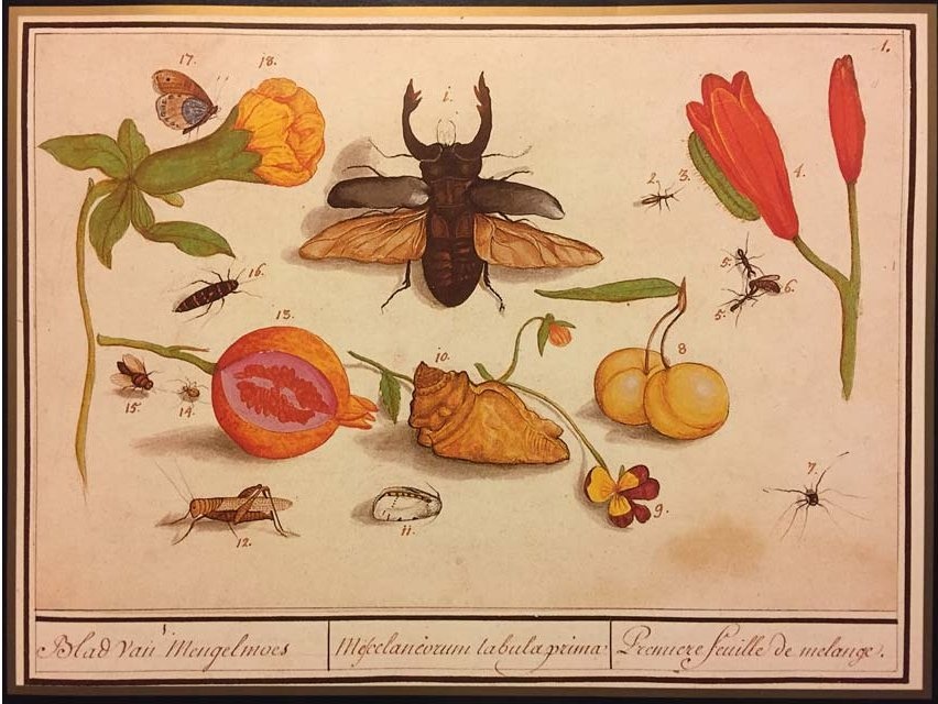 Stag Beetle, Flowers, Fruit and other Insects by Anselmus de Boodt, from Historia Naturalis by Rudolf II, volume VII, plate 30